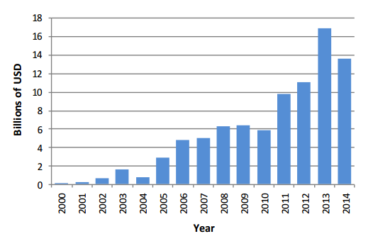 Chart of loans, in billions, committed by China to African countries. The loans show a strong increasing trend over the years, from 2000 to 2014.